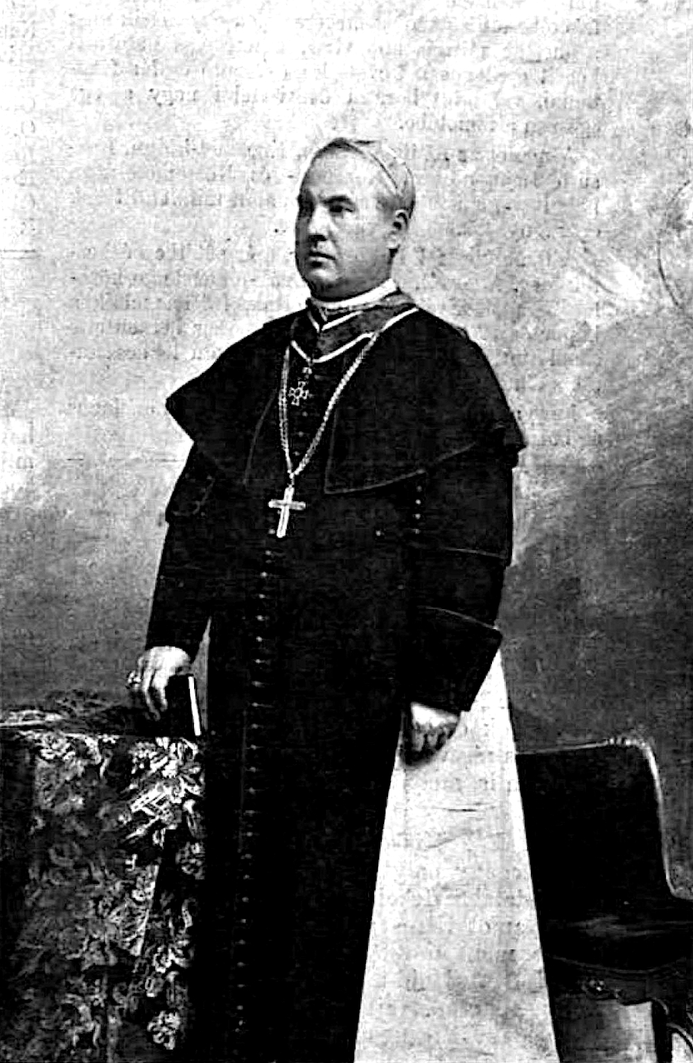 János Vályi